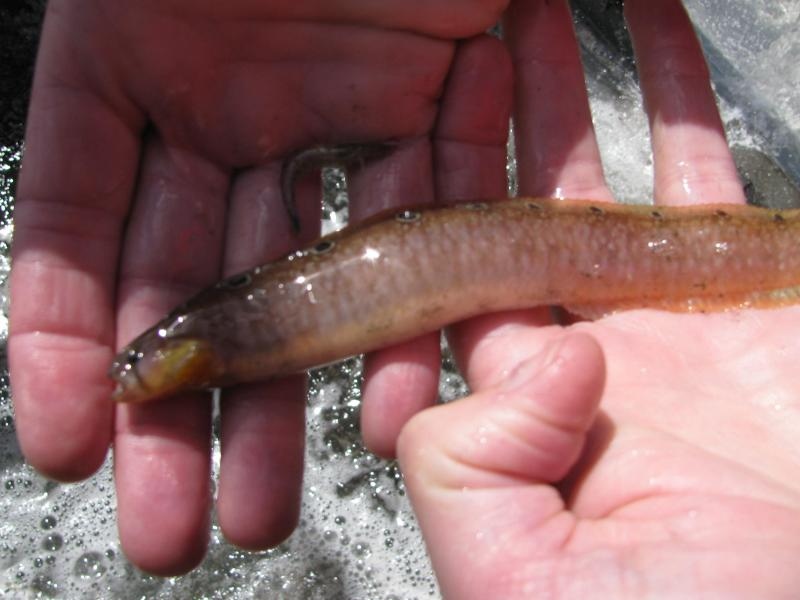 Pholis gunnellus. Location: The Netherlands - Waddenzee